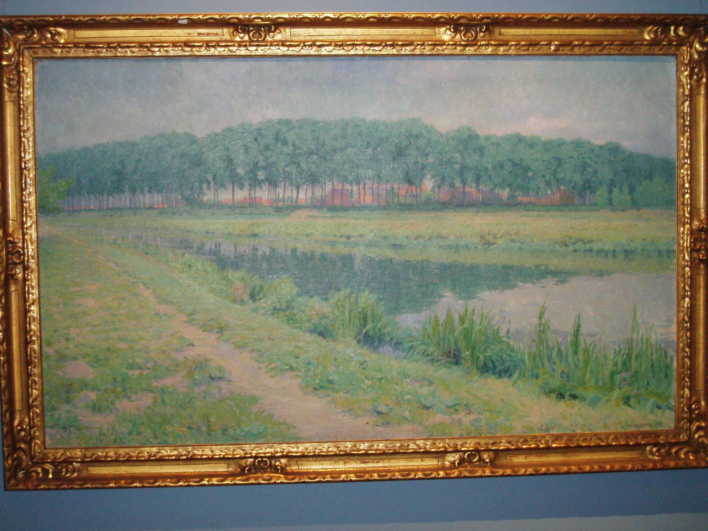 Raymond de la Haye - "Breed Netegezicht met begijnenvest" (1913)